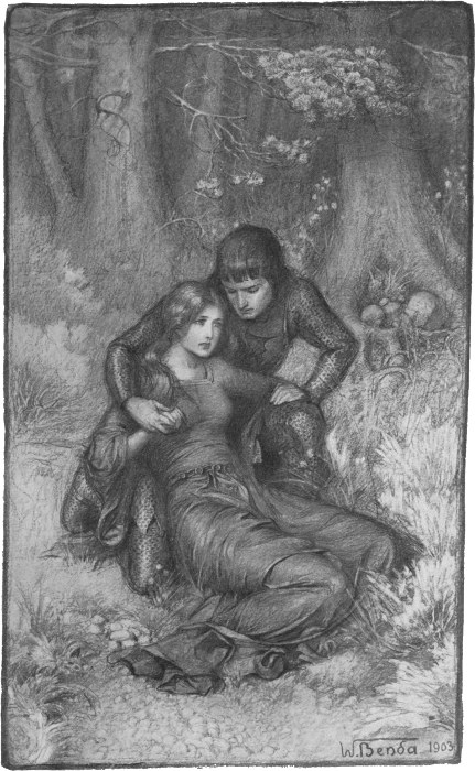 Uther clasps Igraine, after Gorlois's death. "Shall I not be your wife?" from Uther and Igraine, Warwick Deeping, illustrated by "W. Benda"